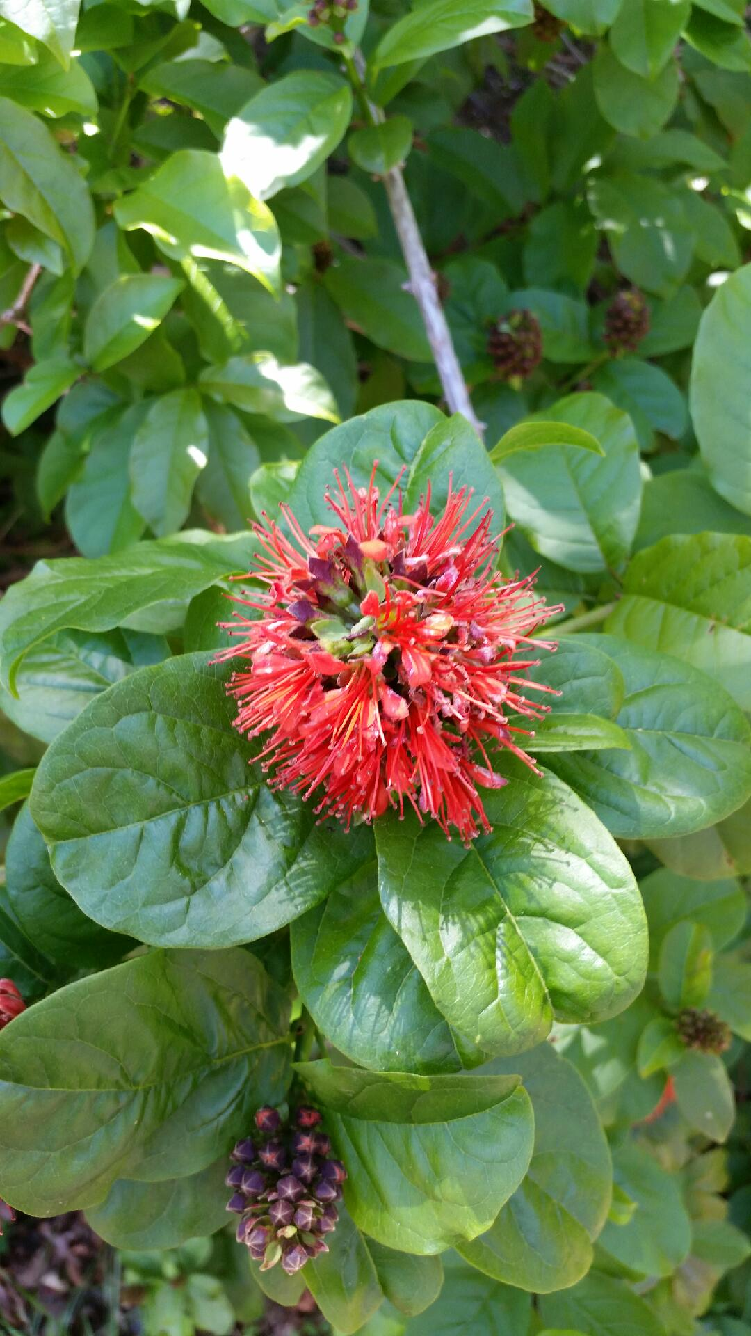 Combretum bracteosum (Hochst.) Engl. & Diels - cultivated in Cape Town, South Africa